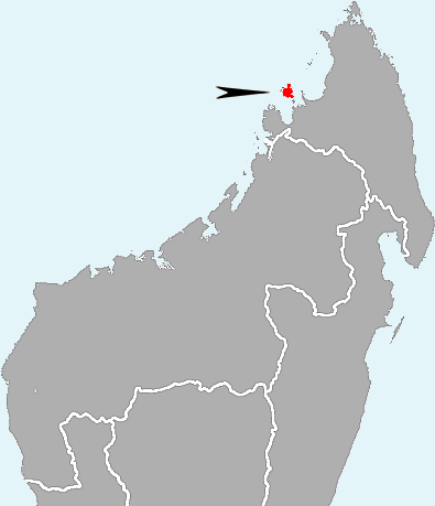 Location of Nosy Be